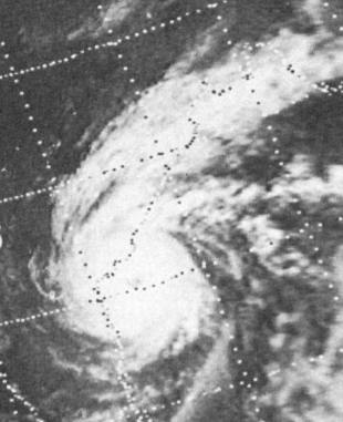 This is an image of a hurricane-strength tropical cyclone striking eastern India on November 19, 1977 by the NOAA 5 satellite